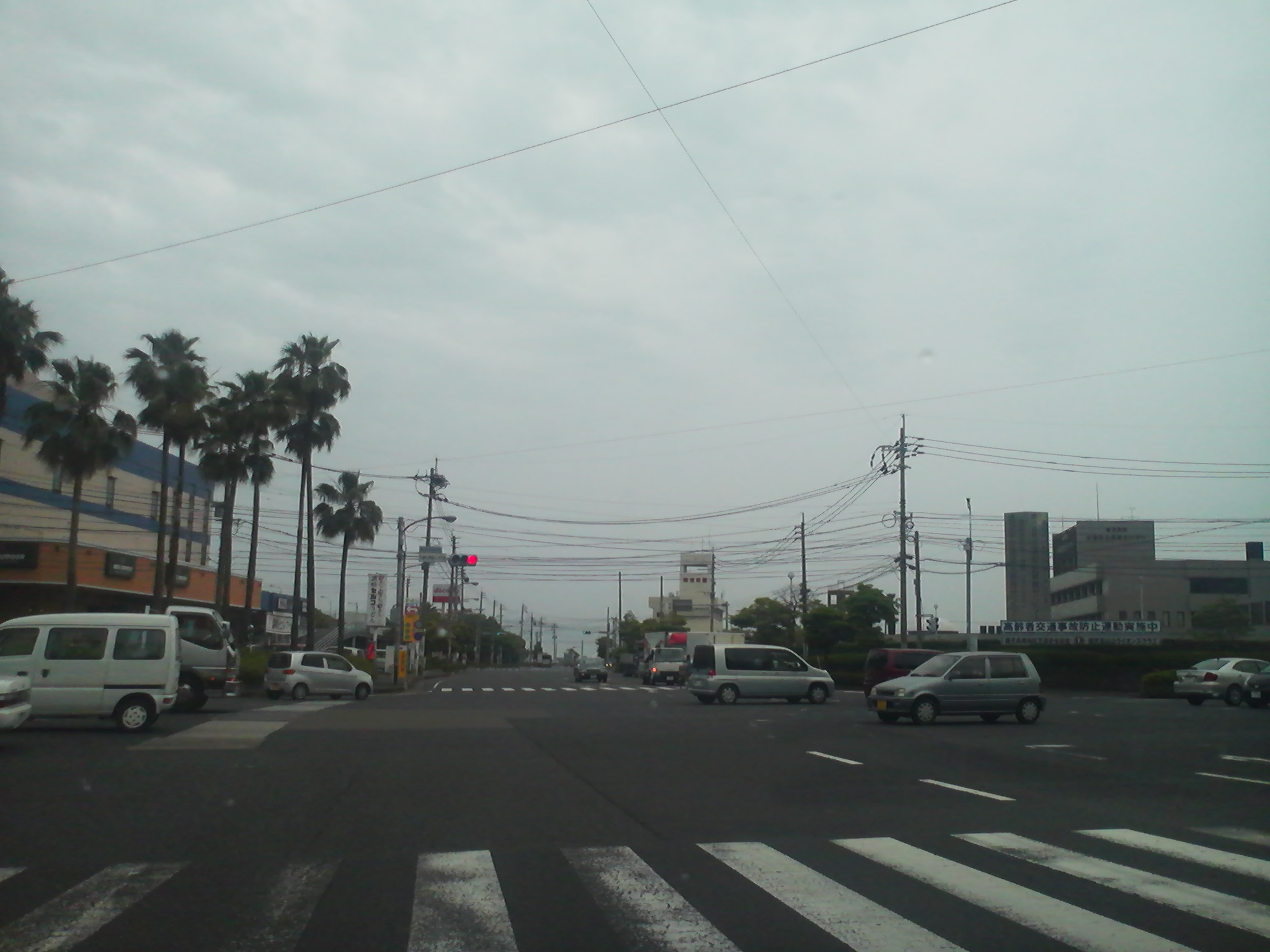 The Kotsuanzen Kyoiku Center Intersection of the Kagoshima Prefectural Road Routes 217 and 219